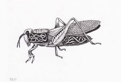 Nematomorpha (sometimes called Gordiacea, and commonly known as Horsehair worms or Gordian worms)